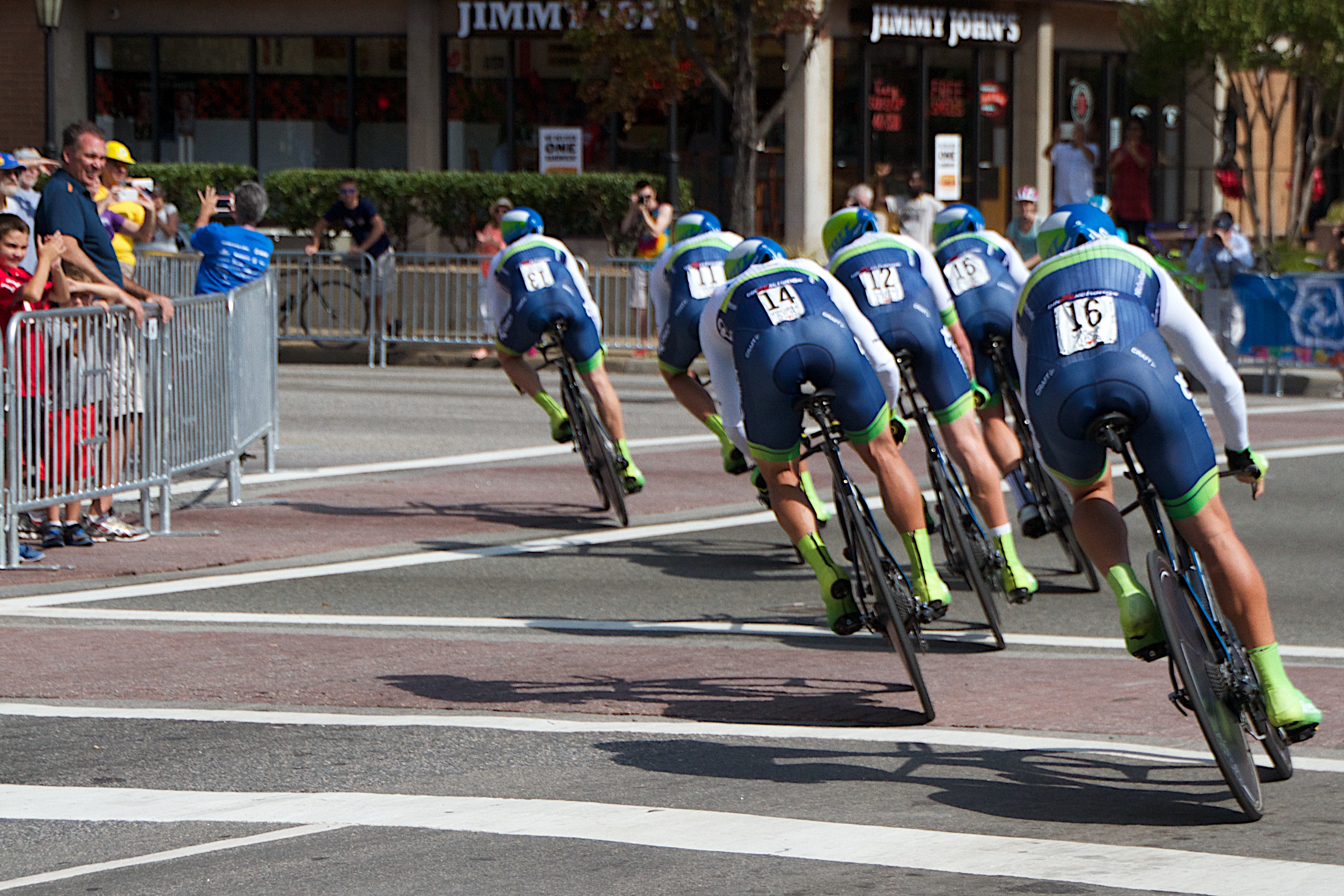 2015 UCI Road World Championships - Men's team time trial - Orica